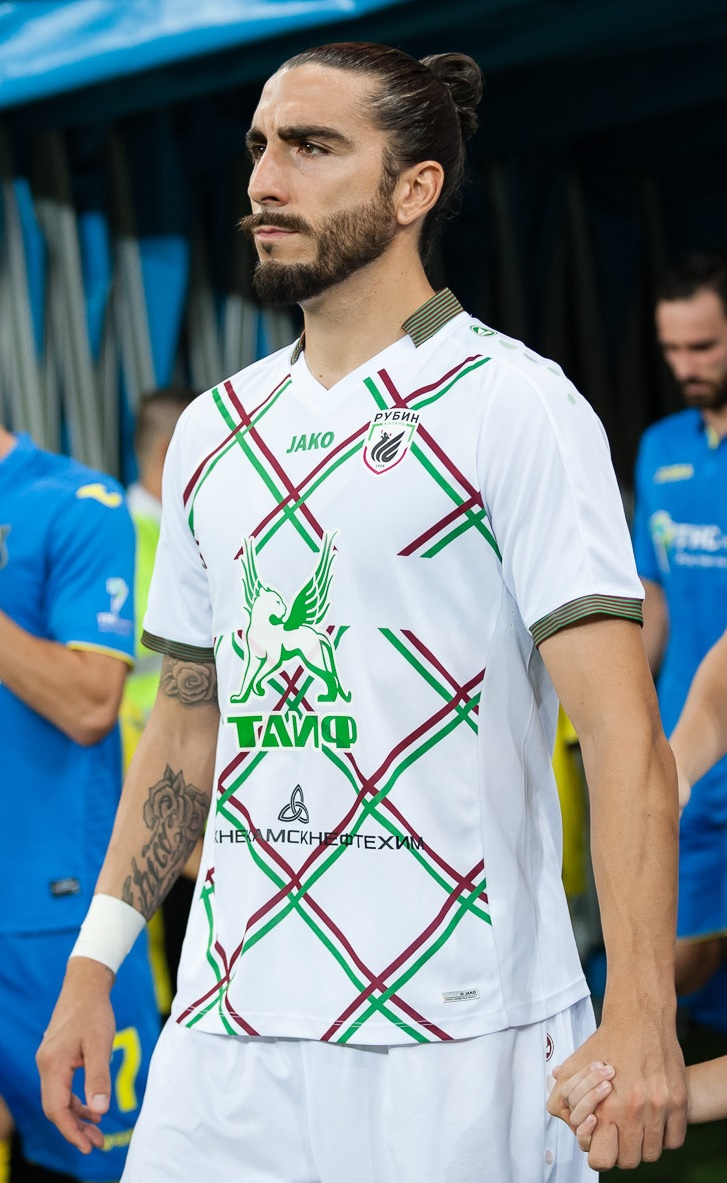 José Manuel Flores Moreno (Chico) with FC Rubin Kazan before the game against FC Rostov.